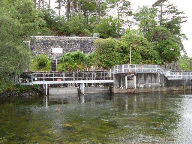 Loch Morar hydro station A small station commissioned in 1948 which generates 1 megawatt from a head of just 5 metres. Beautiful. It sits at the head of a short rapid section which separates Britain's deepest freshwater lake from the sea. If the Ice Age had lasted a bit longer, Morar would have been a sea loch!